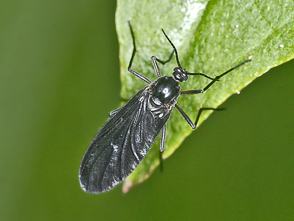 Sciara species (cf.). Genova, Italy